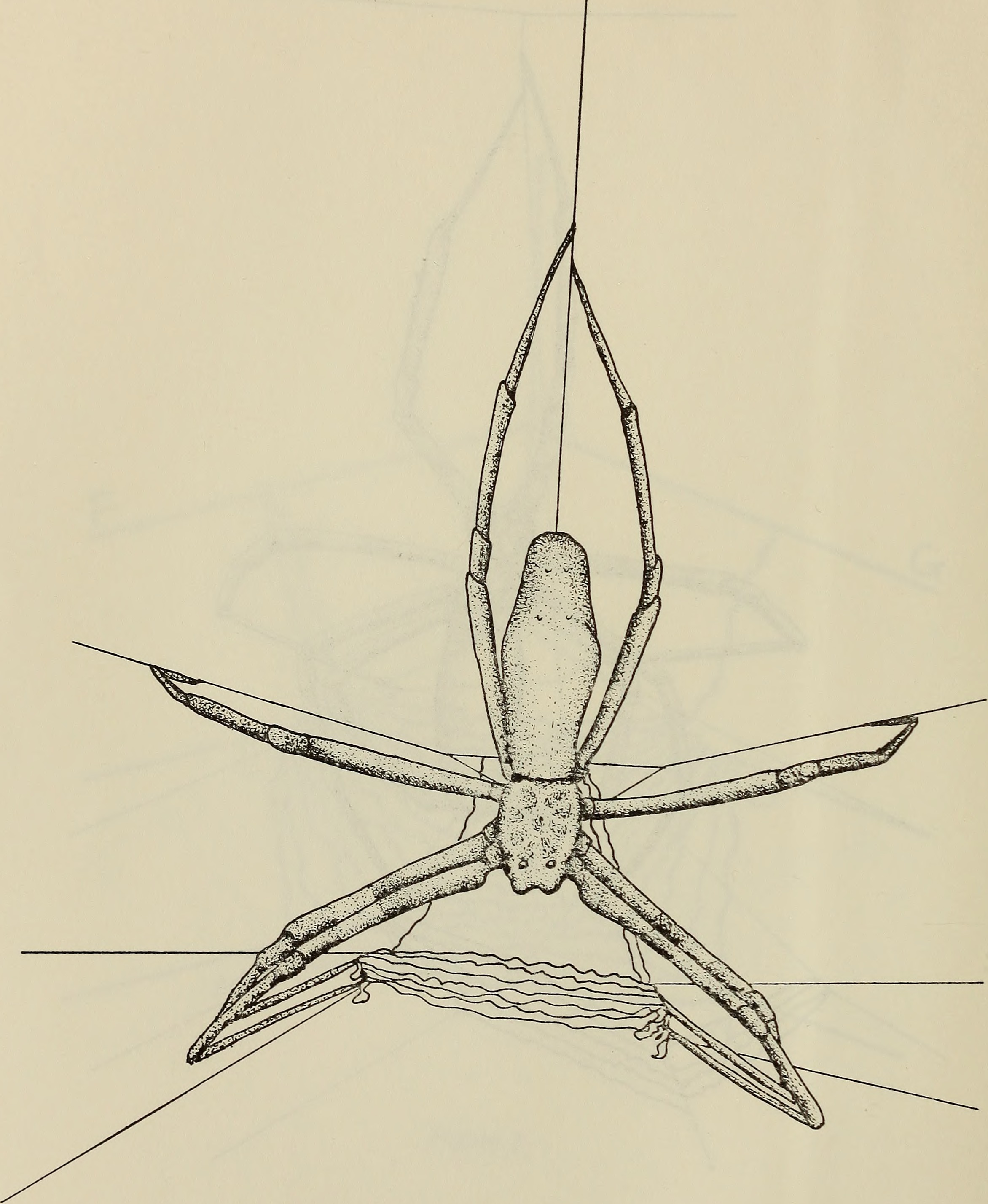 Title: The Australian zoologist Year: 1914 (1910s) Authors: Royal Zoological Society of New South Wales; Royal Zoological Society of New South Wales. Proceedings Subjects: Zoology; Zoology; Zoology Publisher: (Sydney, Royal Zoological Society of New South Wales) Text Appearing Before Image: 194 SPIDER Text Appearing After Image: Figure 5.